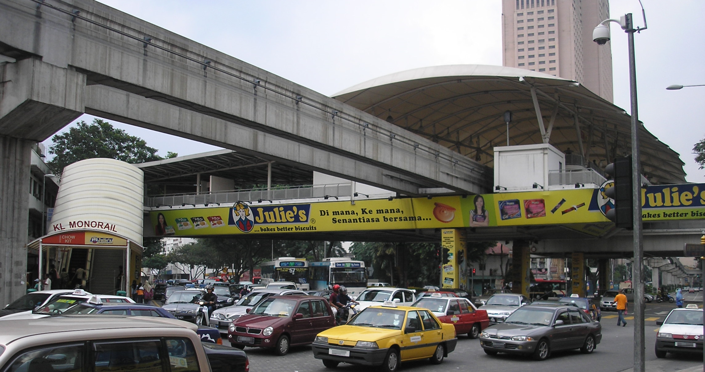 The Chow Kit station (Kuala Lumpur Monorail) (exterior), Chow Kit, Kuala Lumpur, Malaysia.